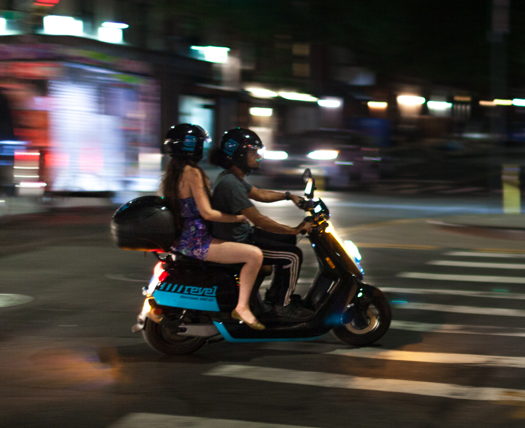 Rentable Scooter from Revel Transit Photo featured by WNYC on 7/10/19